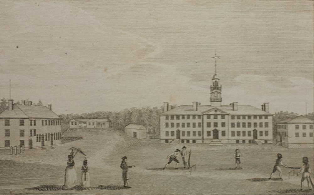 The earliest known image of Dartmouth, which appeared in the February 1793 issue of Massachusetts Magazine, illustrated a brief article on the College. The artist, Josiah Dunham, a member of the Class of 1789, was a preceptor at Moor’s Indian Charity School at the time.